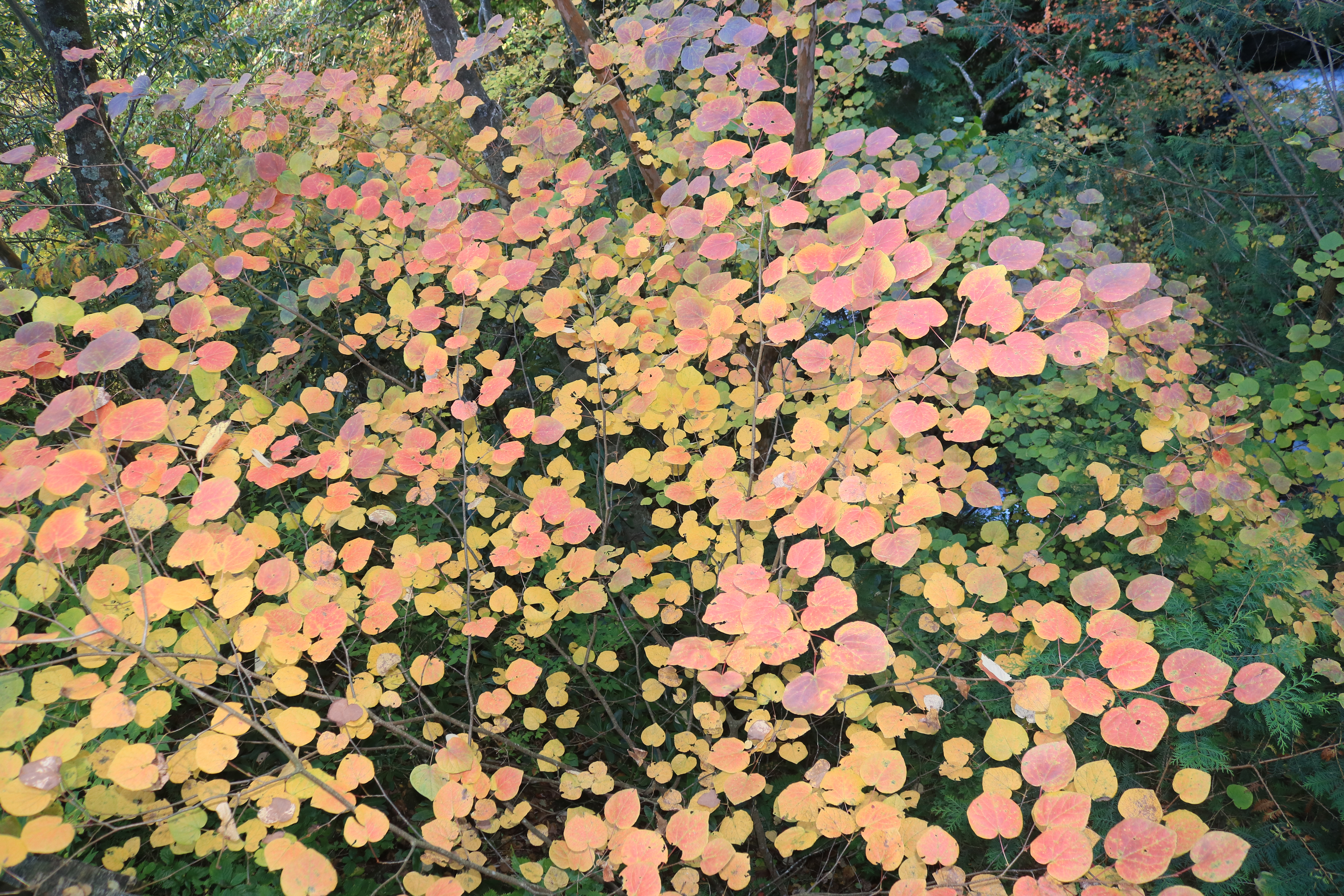 Disanthus cercidifolius in Mount Kohide, Nakatsugawa, Gifu Prefecture, Japan.